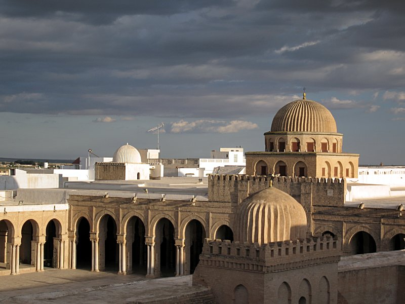 Roofs (with domes) of the Great Mosque of Kairouan, in Tunisia.